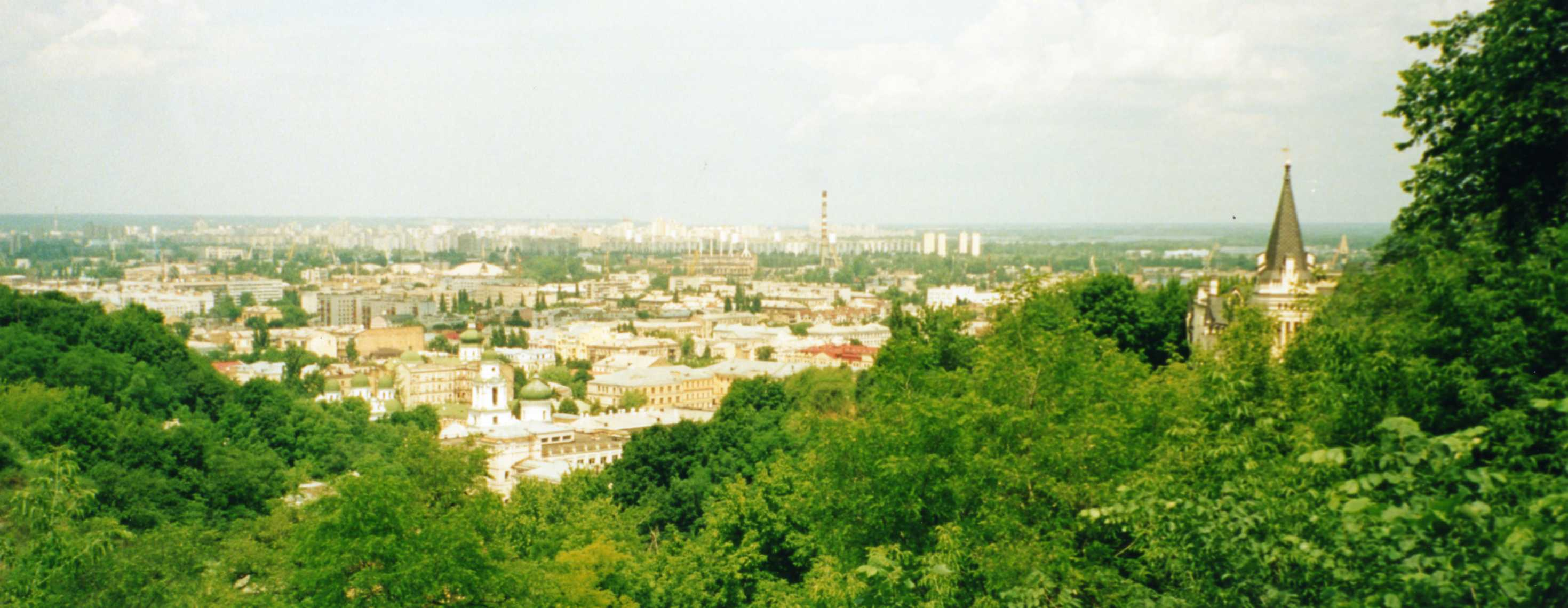 This is the view of the Podil with The Castle of Richard Lionheart on the Andrew's Descent located on the right. Photo taken in 2001 by User:DDima.